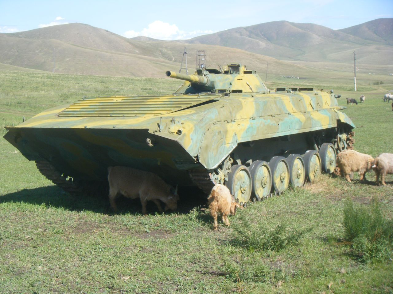 Mongolian BMP-1 IFV near or in Ulan Bator, Mongolia.